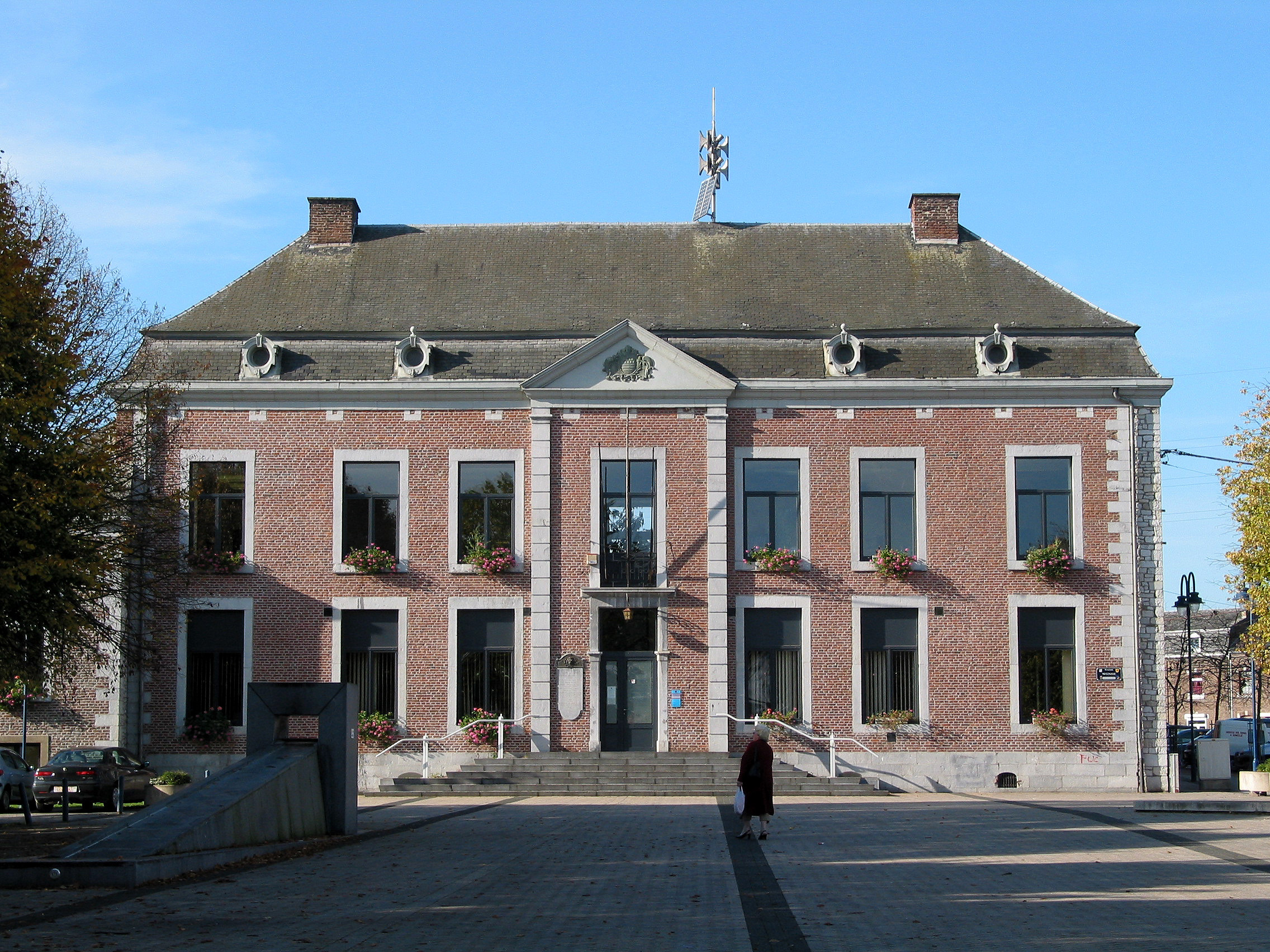 Wanze (Belgium), the town hall.